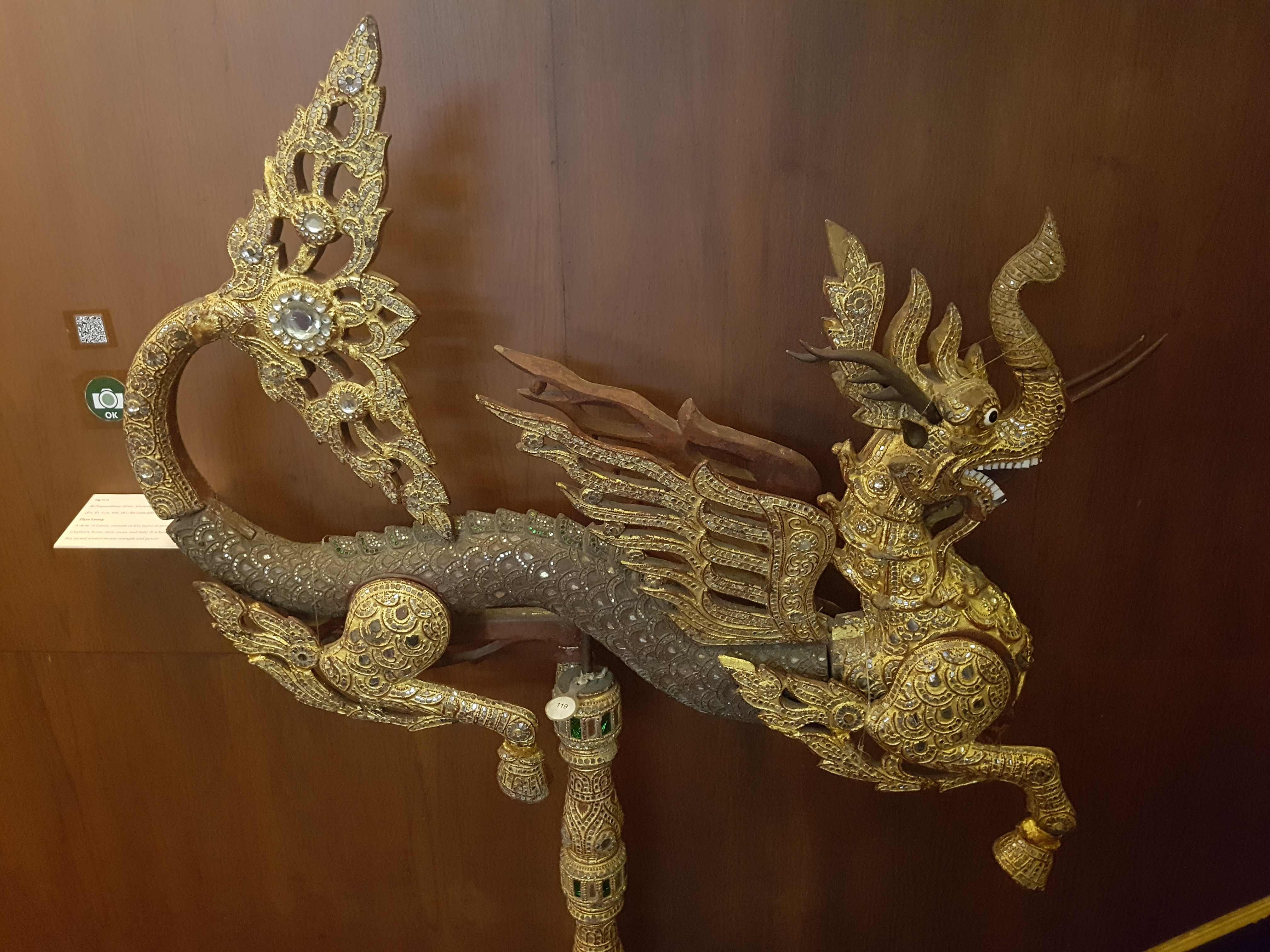 Place: Hong Luang Saeng Kaeo (โฮงหลวงแสงแก้ว; "Great Hall of Jewelled Halo"), a museum housed by Wat Phra Kaeo, a Buddhist temple in Chiang Rai Province, Thailand. Item: Image of the monster Phaya Luang (พญาลวง), a hybrid of elephant, horse, deer, swan, and fish.